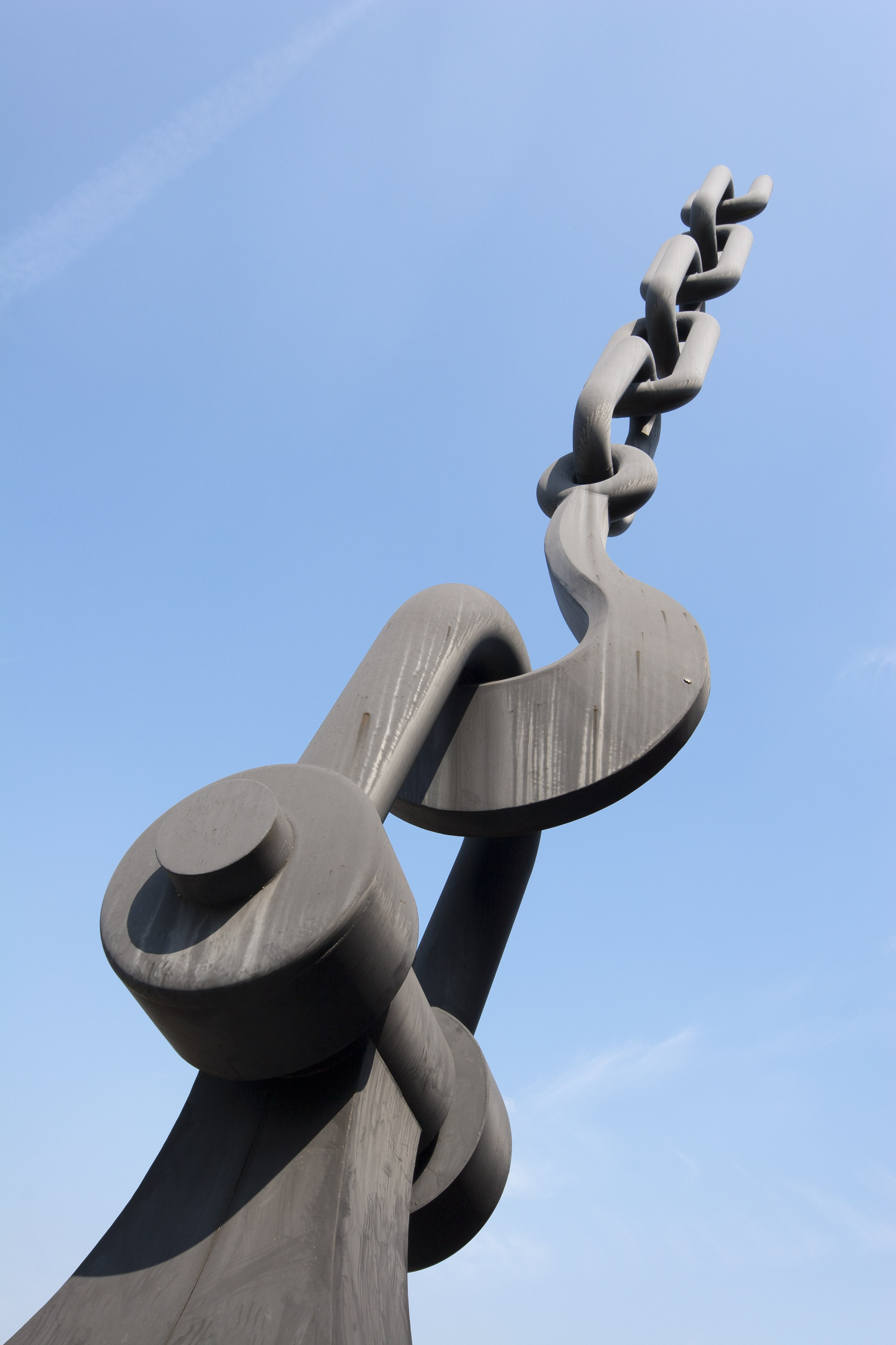 The hook and chain sculpture on Trafford Wharf Road